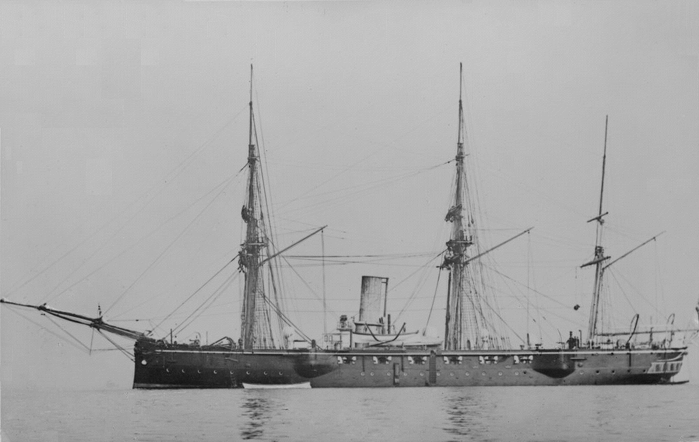 Photograph of HMS Calypso by Allan C. Green; original glass negative in State Library of Victoria, Australia.[1] The library states: Terms of use/Copyright: This work is out of copyright.